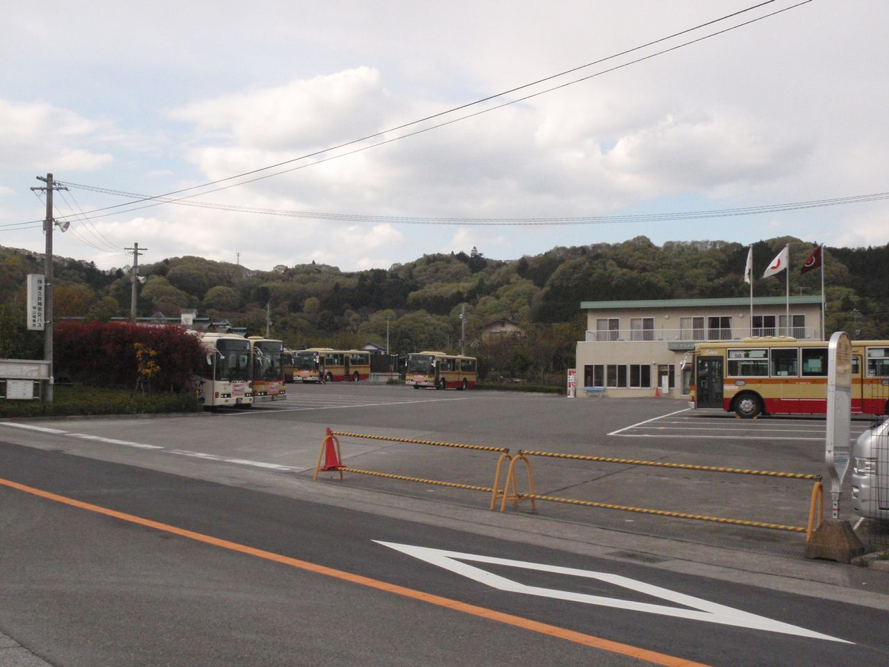 Tsukui Kanako Bus Shirorama Depot